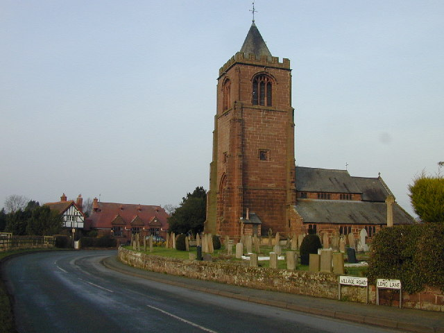 Photograph